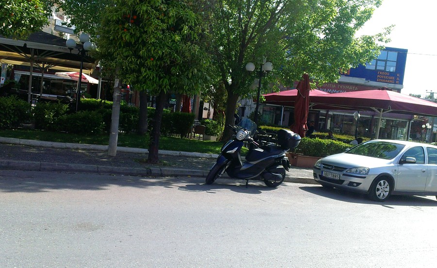 lykovrysi